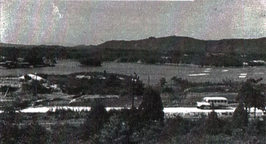 This is a landscape in Shimmei village, Shima district, Mie prefecture, Japan.